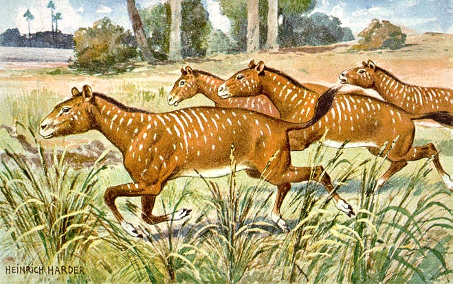 The painting of Mesohippus, a horse-ancestor lived in the Eocene and Oligocene, was made to illustrate one card of a set of 30 collector cards from "Tiere der Urwelt" (Animals of the Prehistoric World). From the Series III.